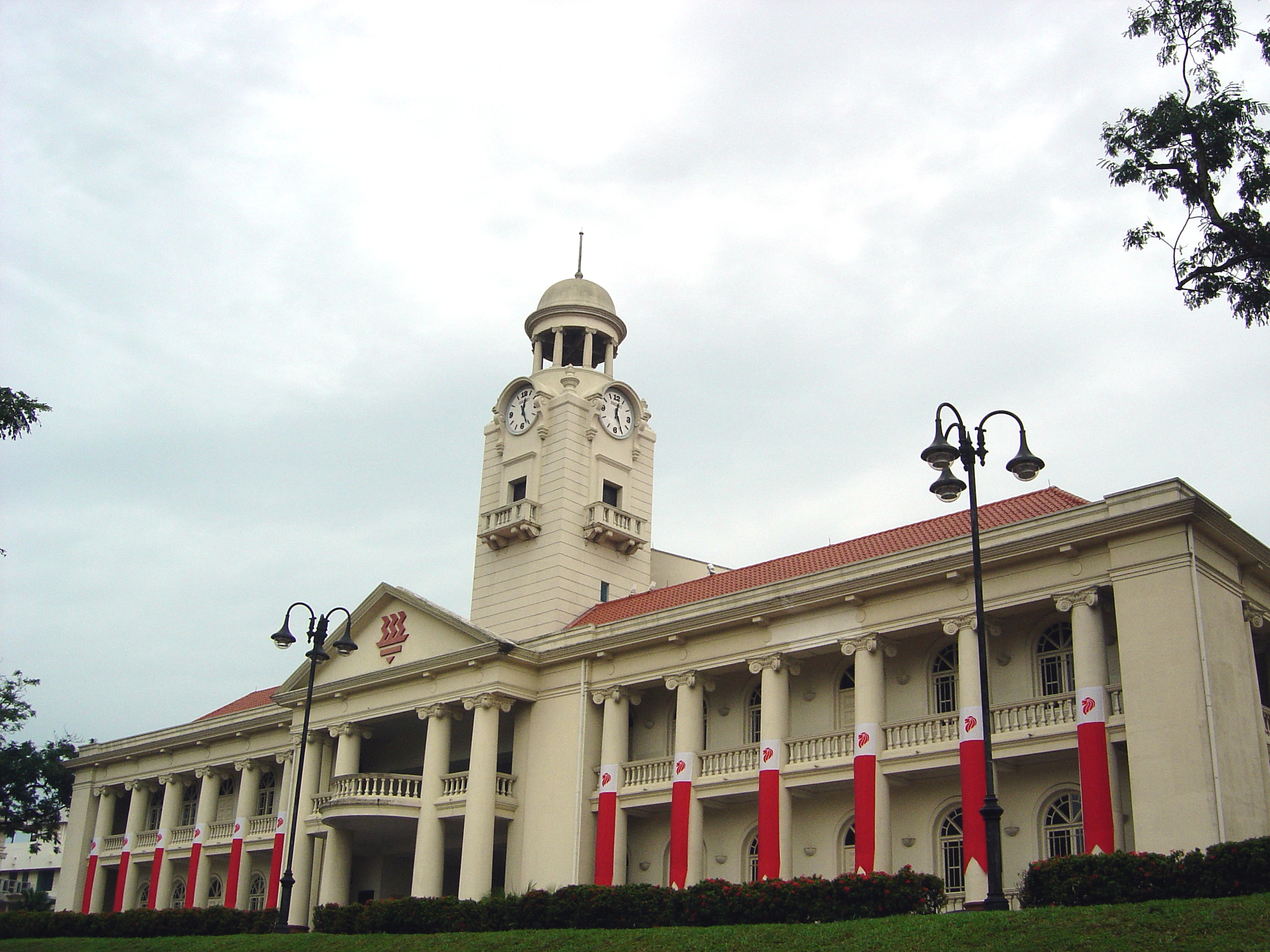 Tower block of The Chinese High School, now known as Hwa Chong Institution.